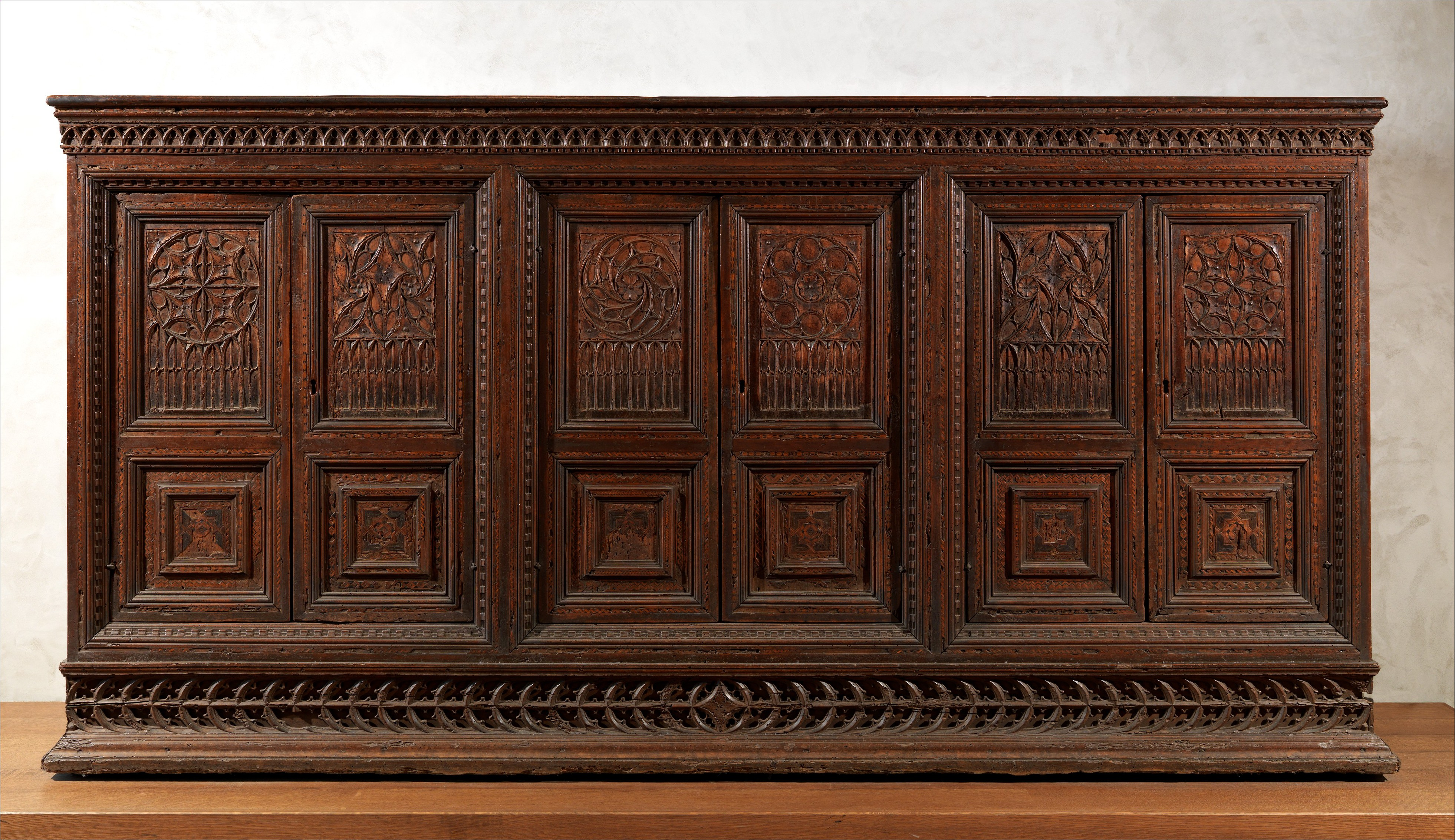 Italian; Credenza; Woodwork-Furniture